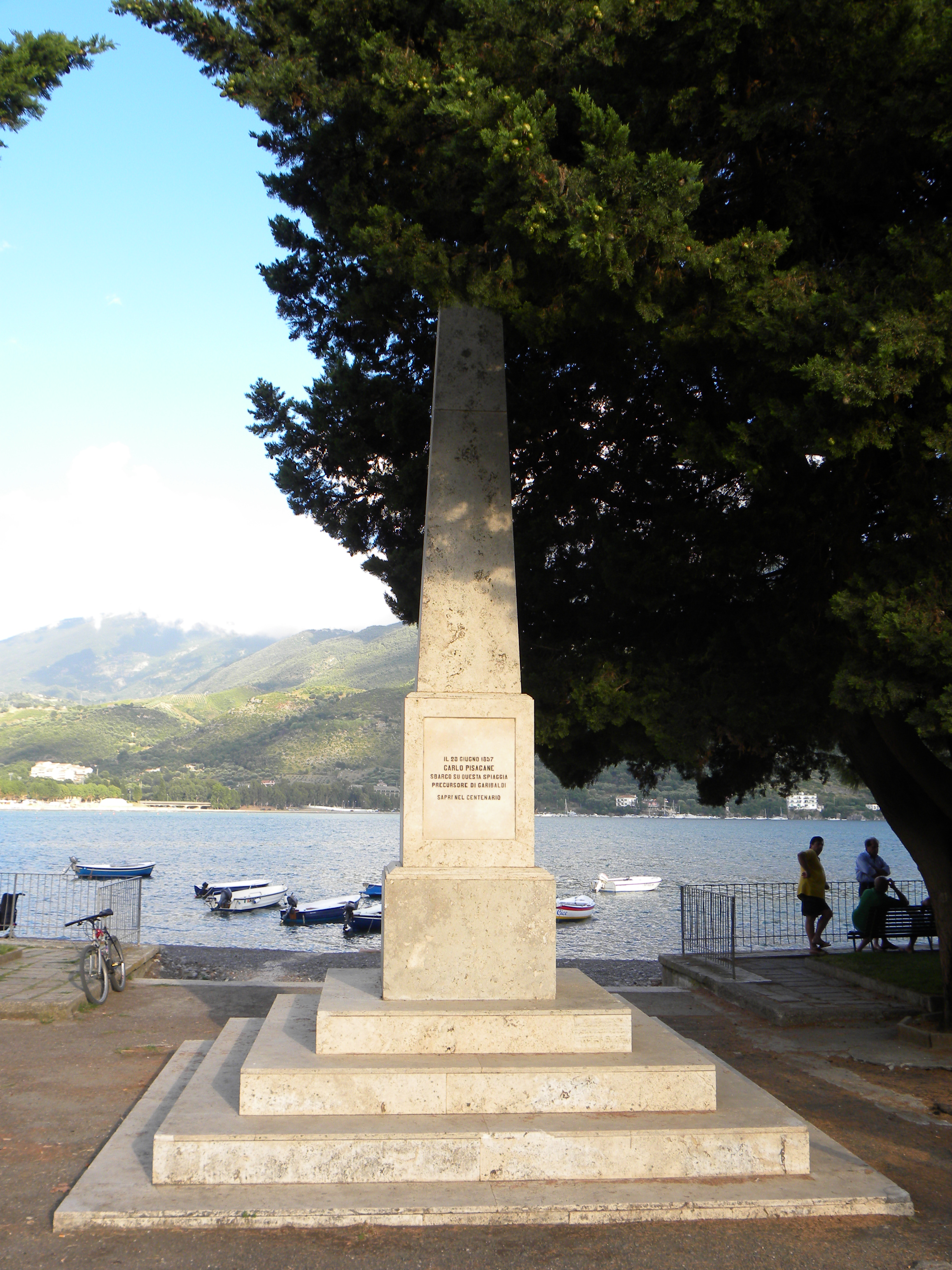 Monument to the landing of Carlo Pisacane on June 28, 1857. Located on the beach of Sapri (SA), Italy